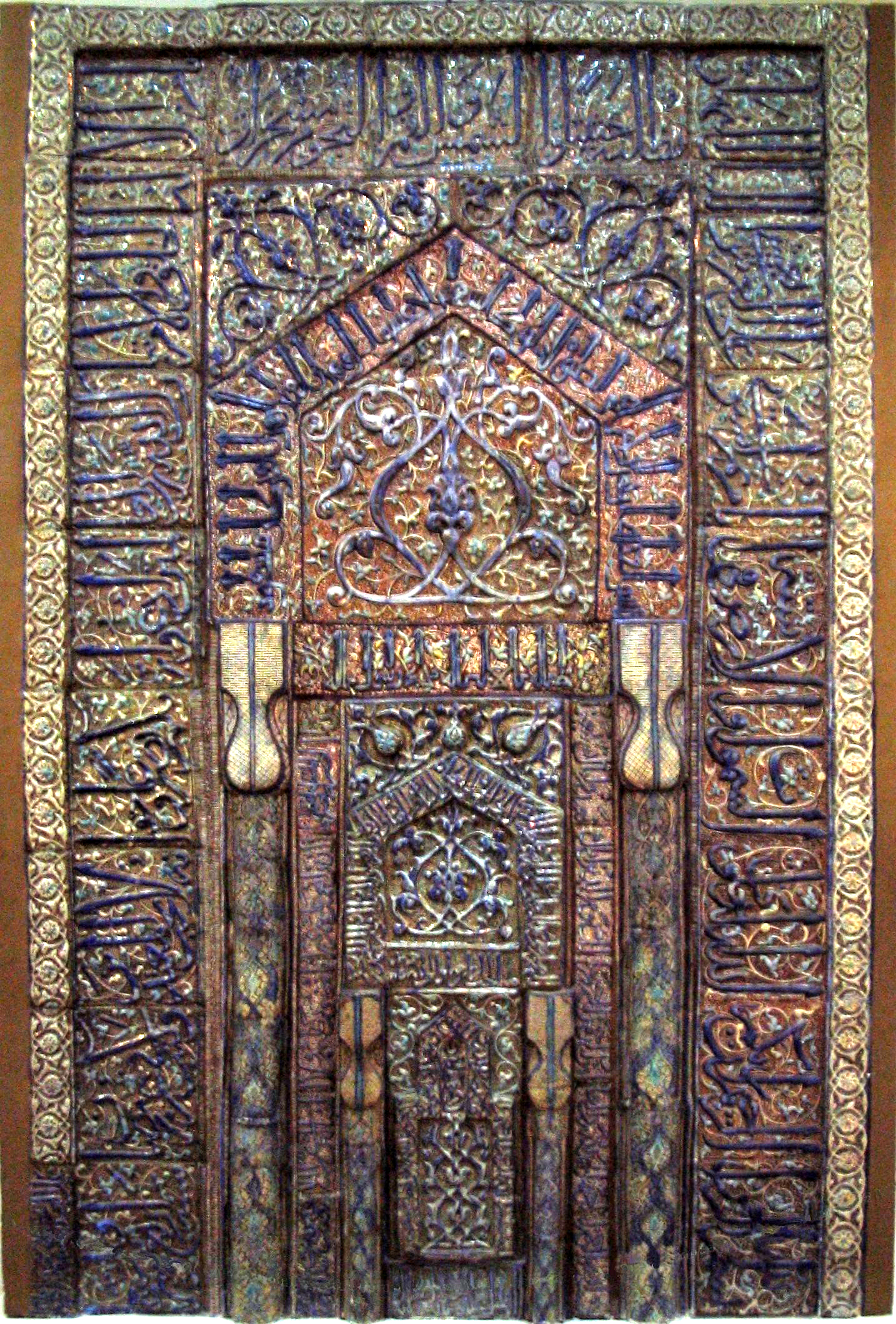 Lustre painted mehrab known as Dar-e Behesht. Shrine of Ali ibn Jafar in Qom. Kufic, Thult, Naskh script. Made by Youssef ibn Ali ibn Mohamed ibn Abi Taher in Kashan. National Iran Museum, Tehran. Datable around 1225, in comparison with a mirhab of Staatlichee Museen in Berlin. Iran.